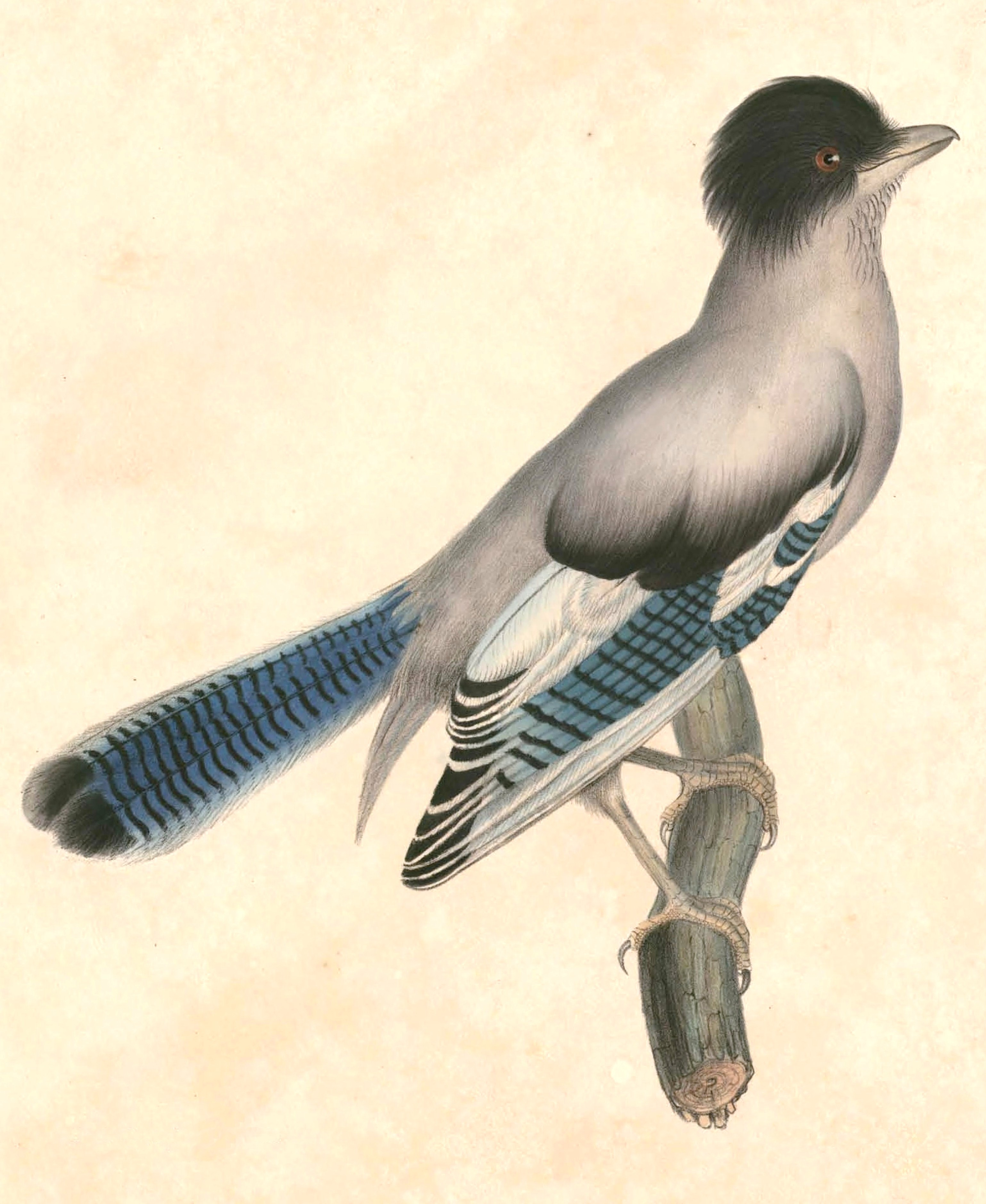 « Garrulus vigorsii » = Garrulus lanceolatus (Black-headed Jay)